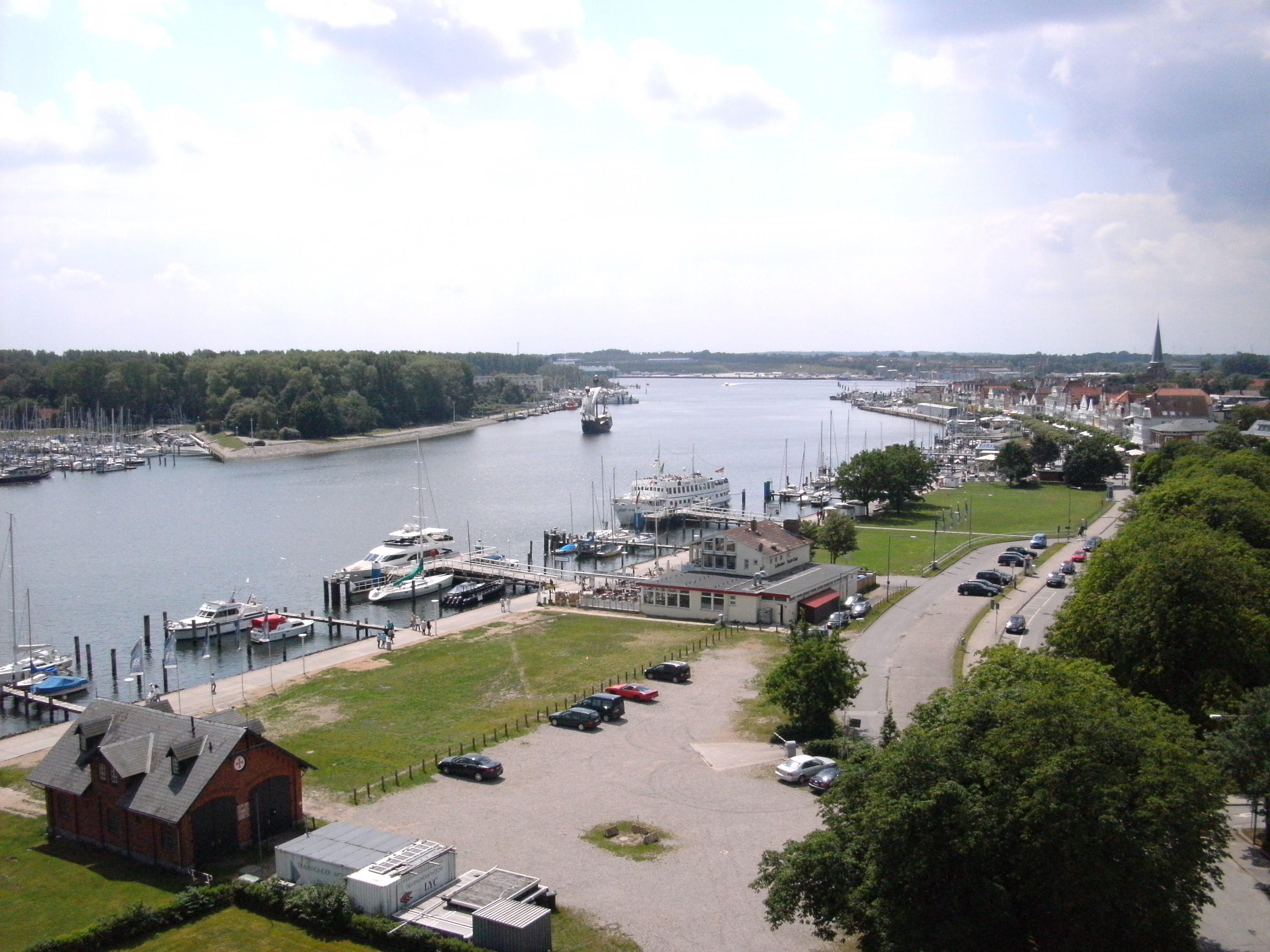 View from the lighthouse in Travemünde